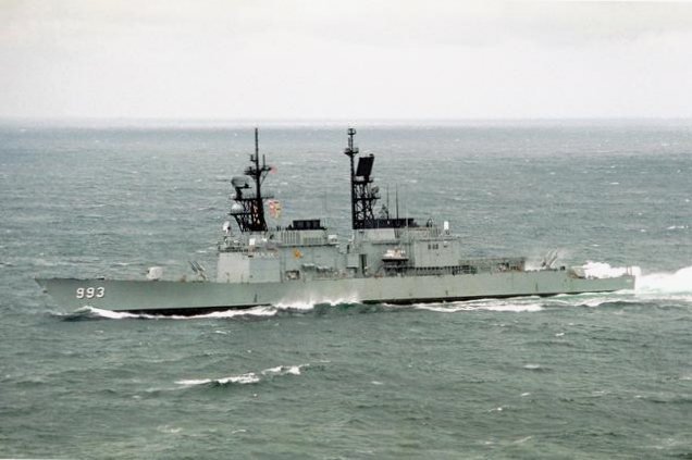 The U.S. Navy guided missile destroyer USS Kidd (DDG-993) underway off the Virginia Capes.